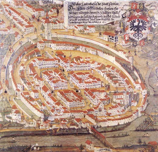 Historic view of the city of Aarau, as seen from north. Drawing from 1612 by Hans Ulrich Fisch.